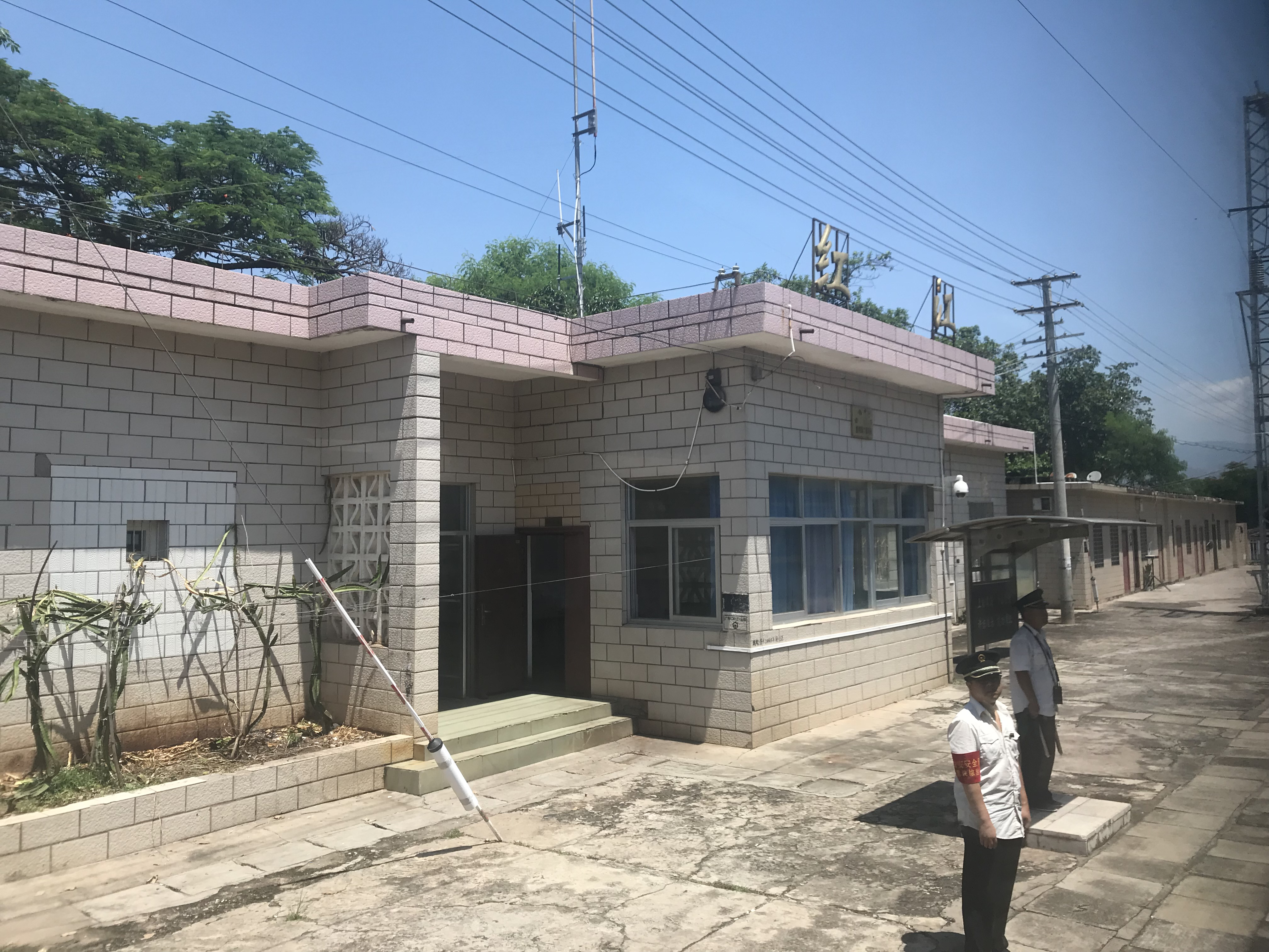 201908 Station Building of Hongjiang Station